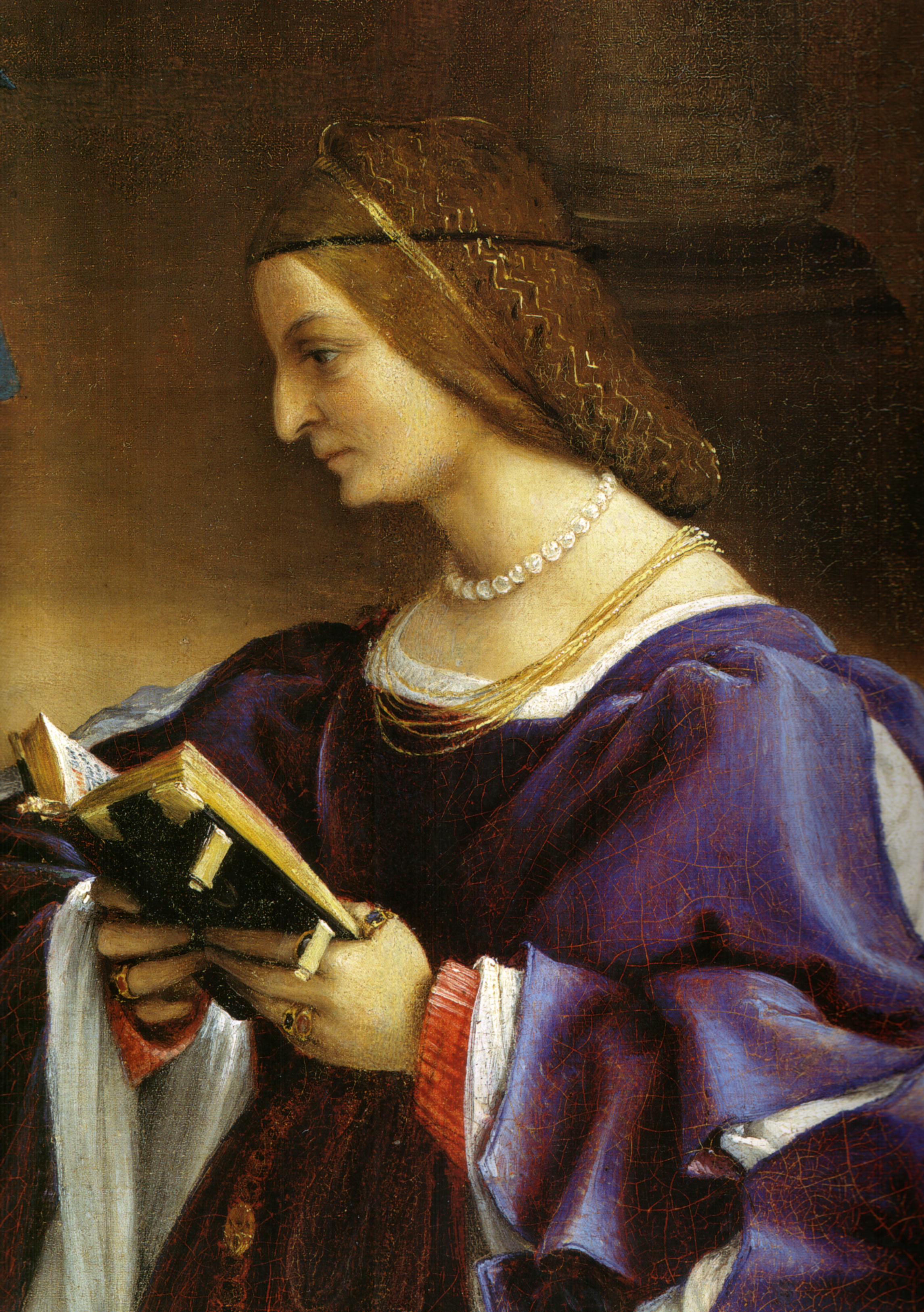 Lotto, Christ Taking Leave of his Mother